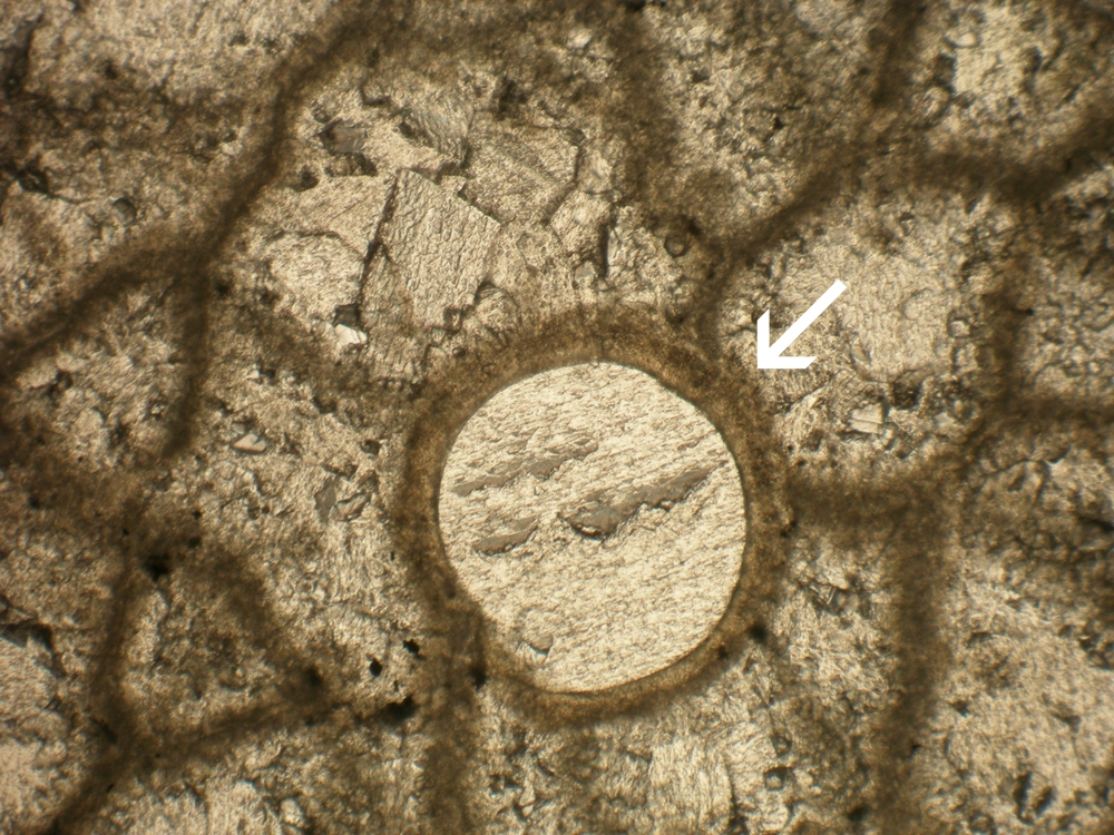 C.sibiriensis in Paleofavosites cf.collatatus Klaamann, 1961, GIT 481-65, Bagovitsa A, Muksha Subformation, Ludlow, transverse section, the arrow points to C. sibiriensis.